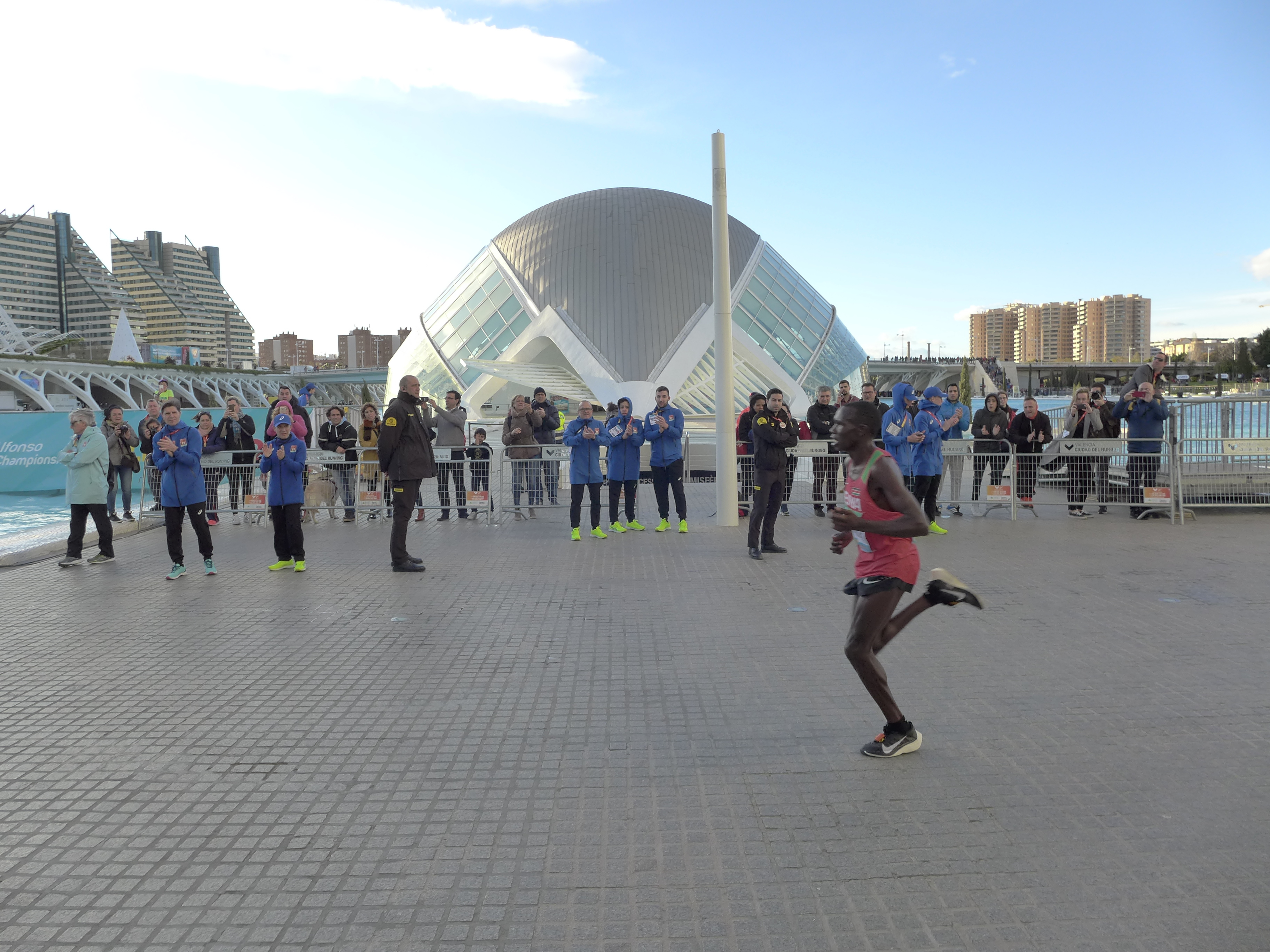 Geoffrey Kamworor soon to win his third IAAF world half marathon in Valencia.